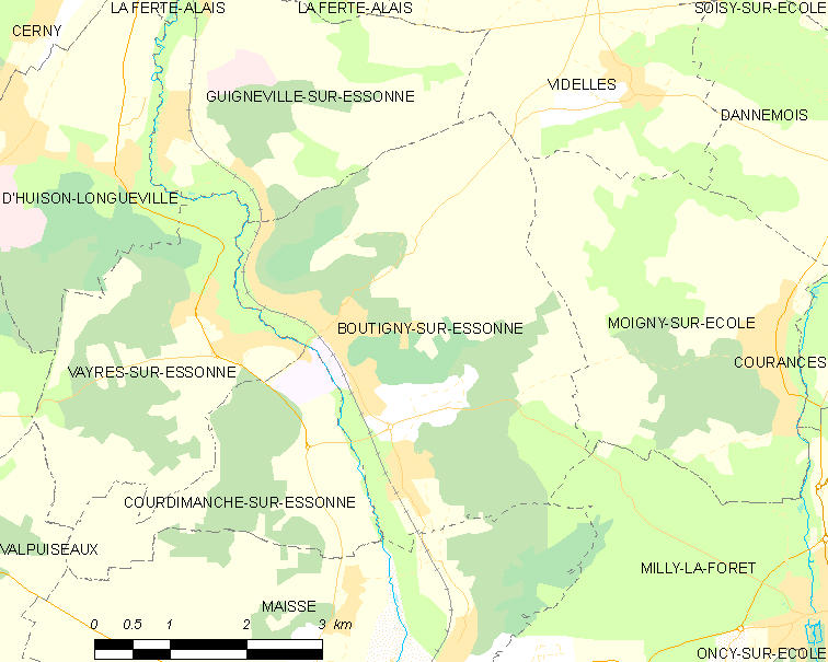 Map of French municipality Boutigny-sur-Essonne